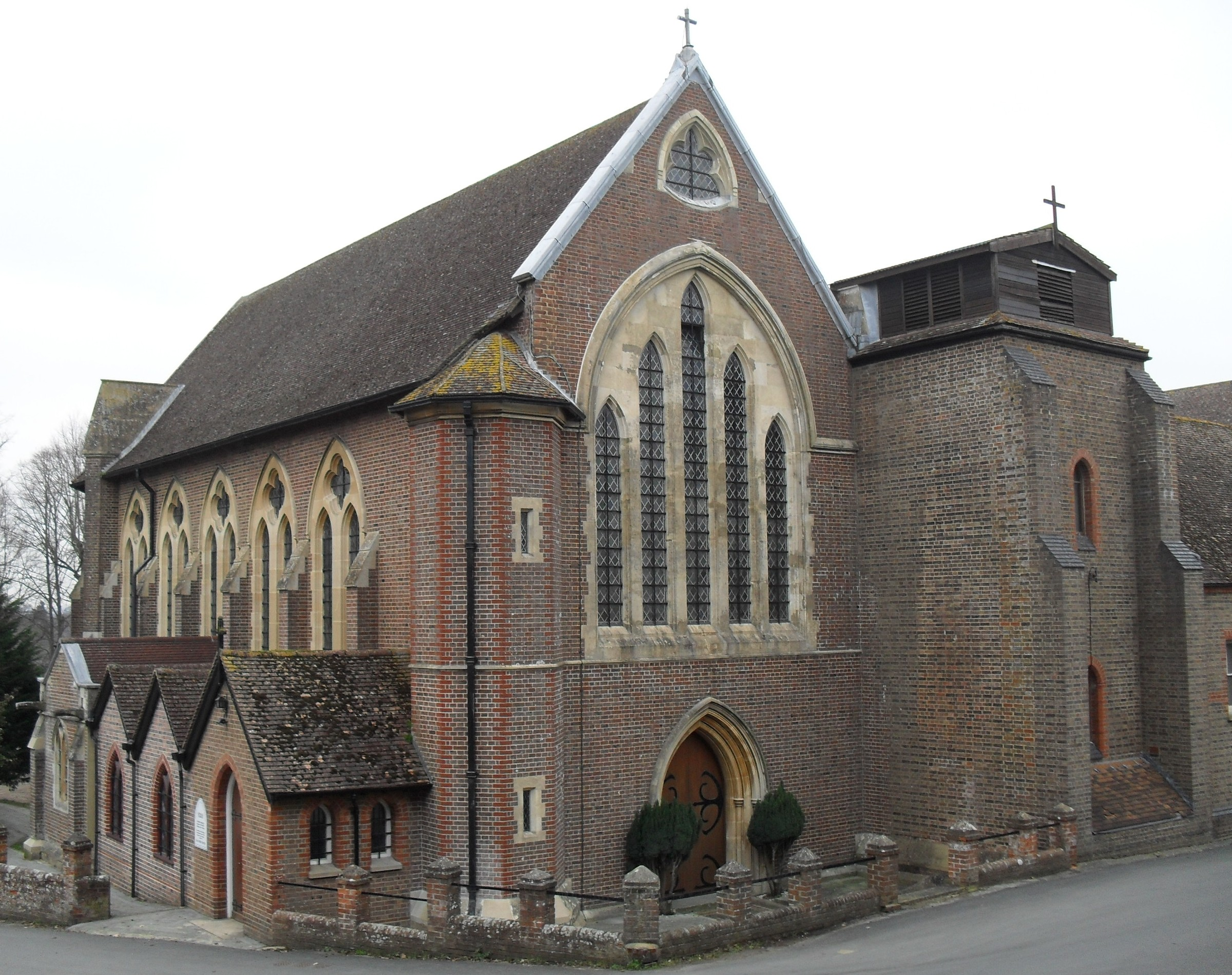 Priory Church of Our Lady of England, Storrington, District of Horsham, West Sussex, England. A Roman Catholic church serving the village of Storrington. It is attached to a priory.